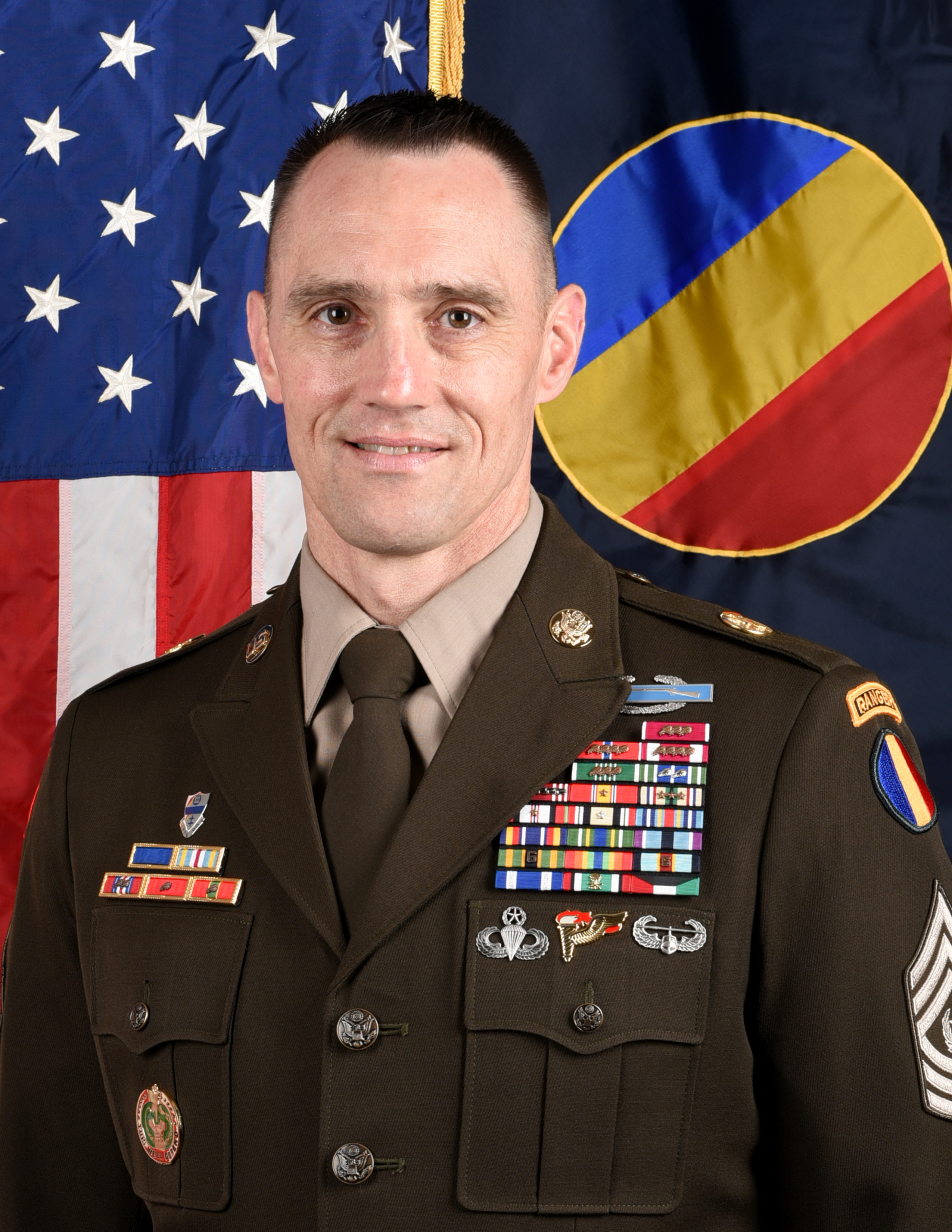 Latest official photo from Timothy A. Guden